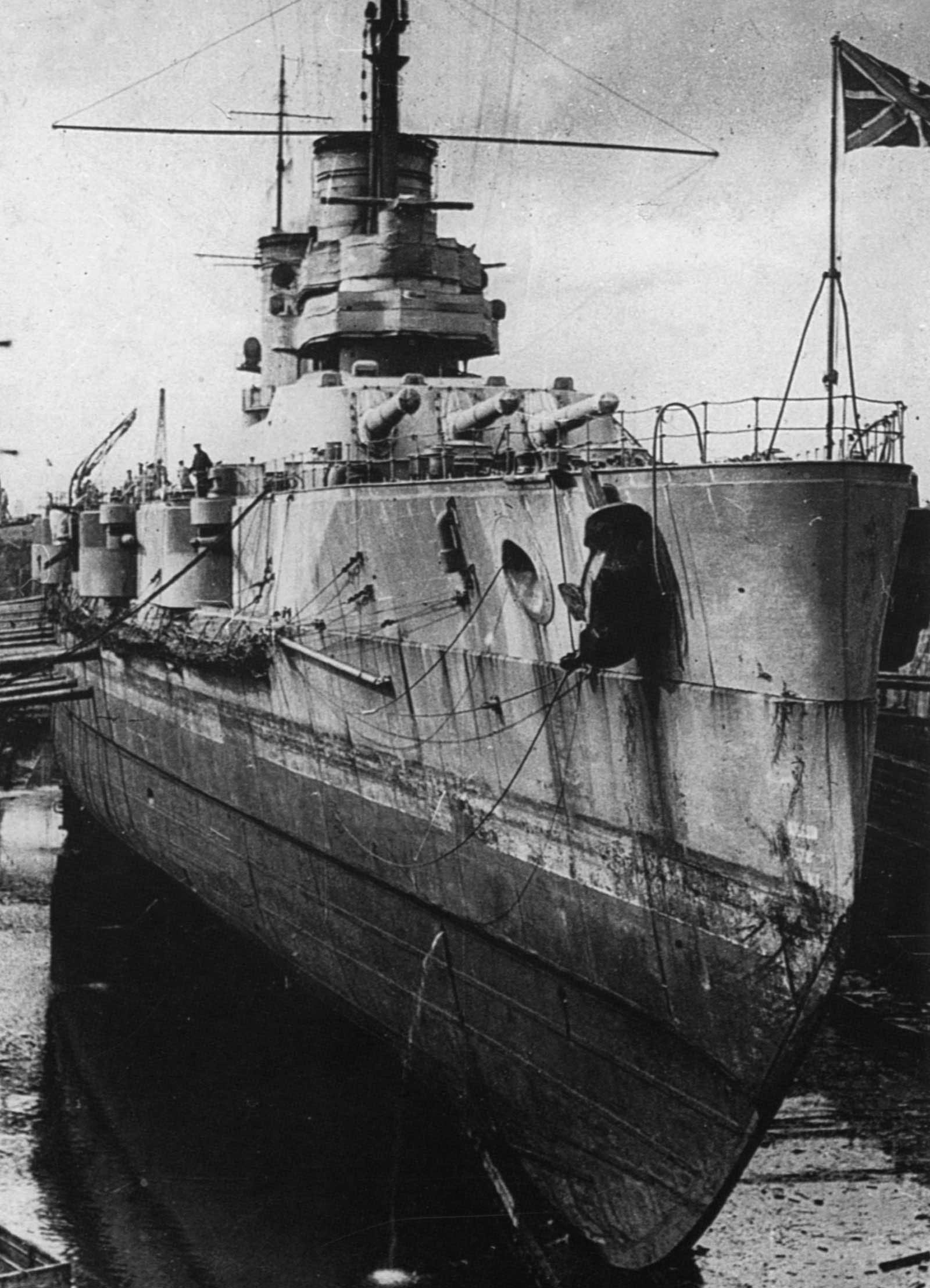 Imperial Russian battleship Sevastopol on the dock.